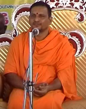 Devanga guru